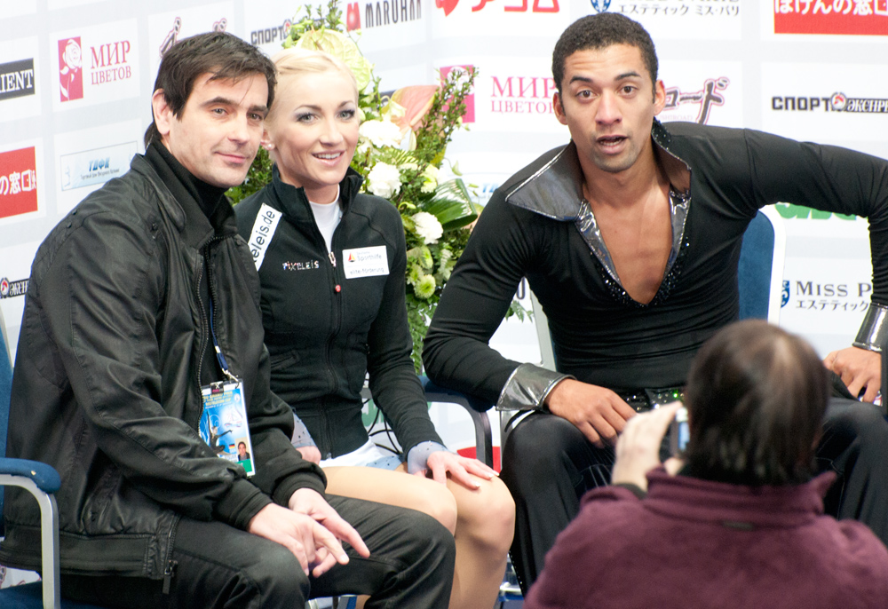 2011 Cup of Russia, short program.